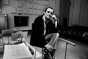 Charles Dutoit